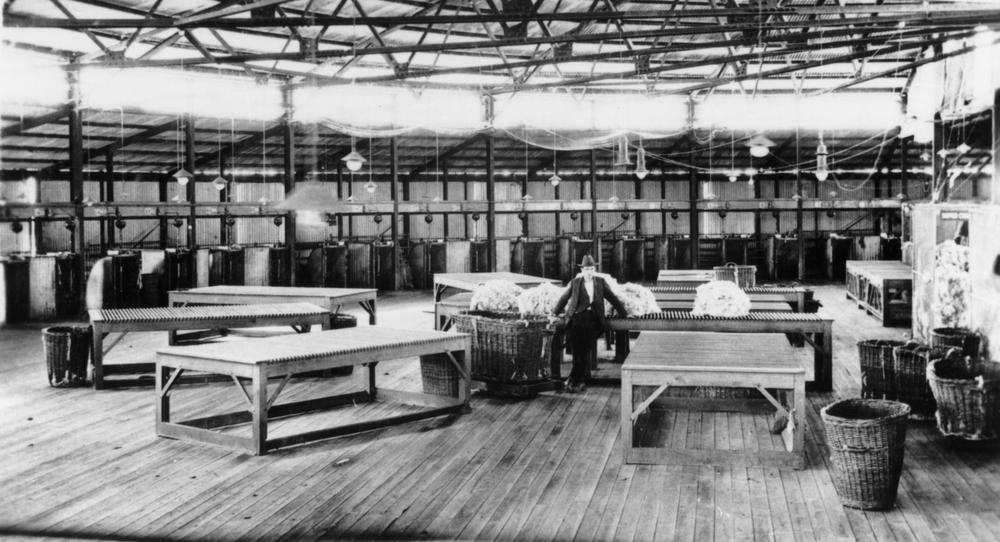 Interior view of the Isis Downs Station wool shed circa 1925